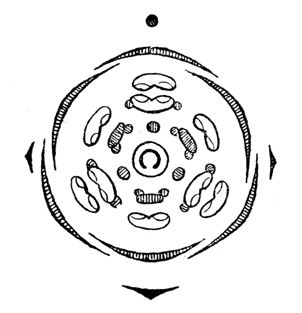 Flower diagram of Persea